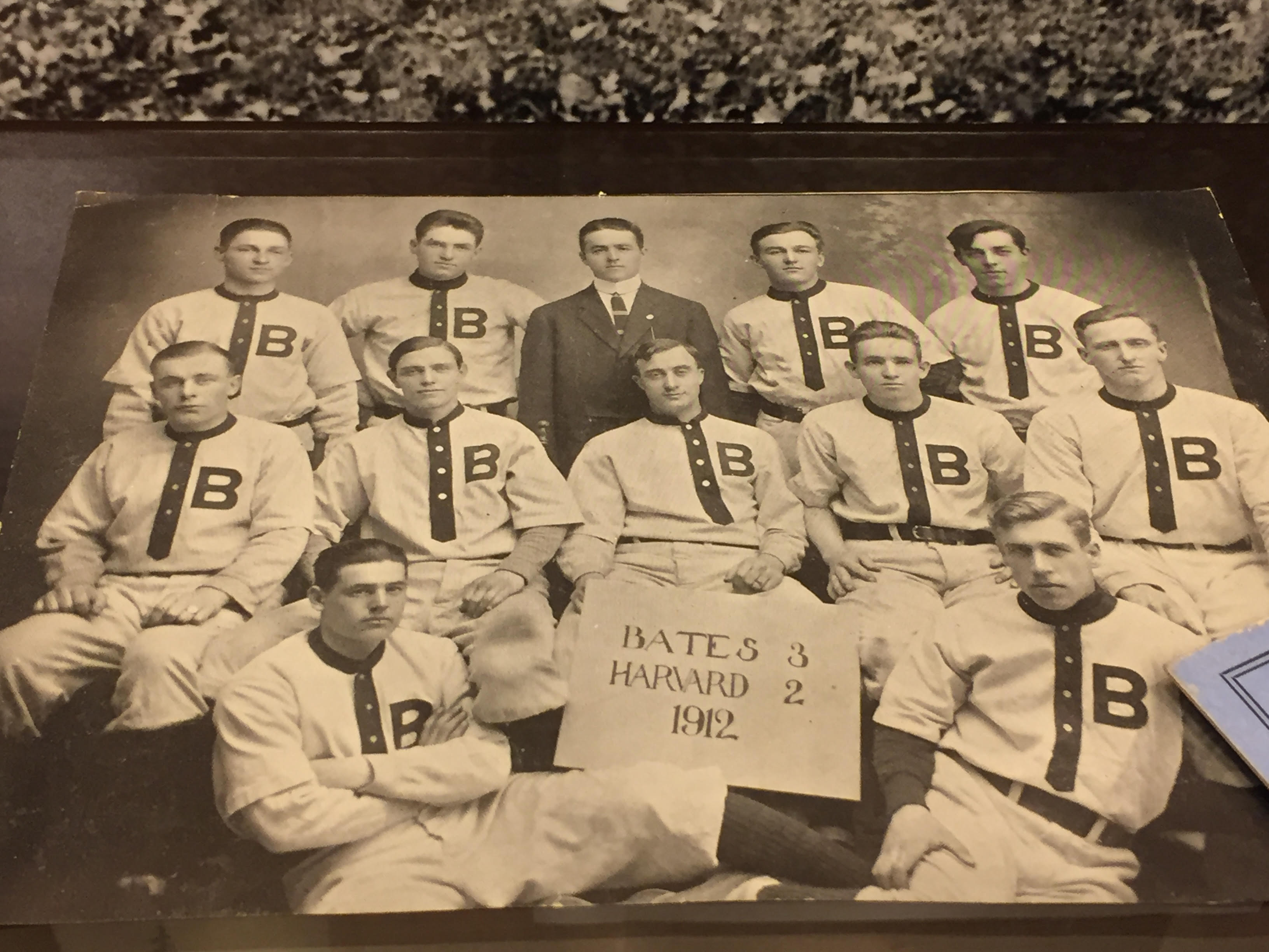 Bates-Harvard 1912 baseball game